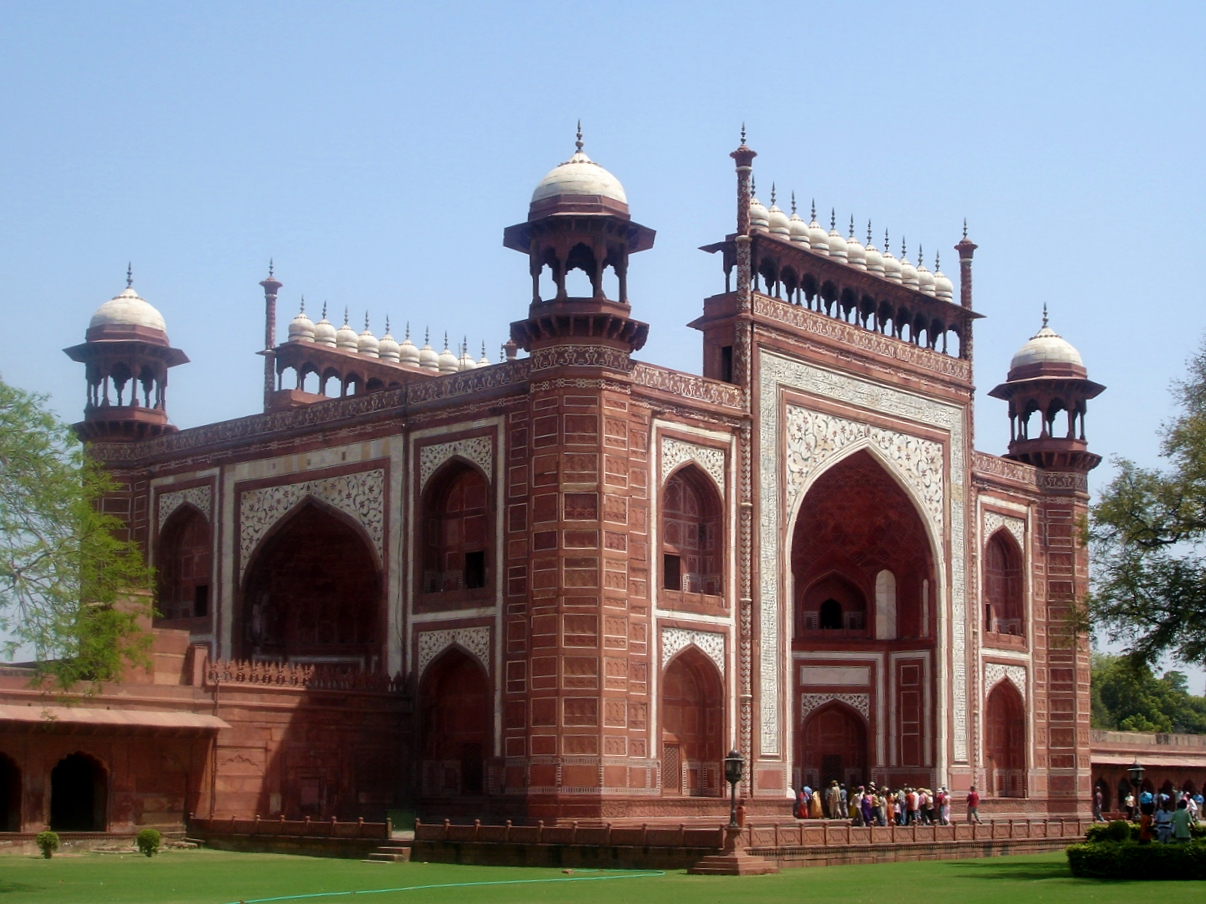 clicked by me - Srikeit(talk ¦ ✉) 04:21, 15 May 2006 (UTC)